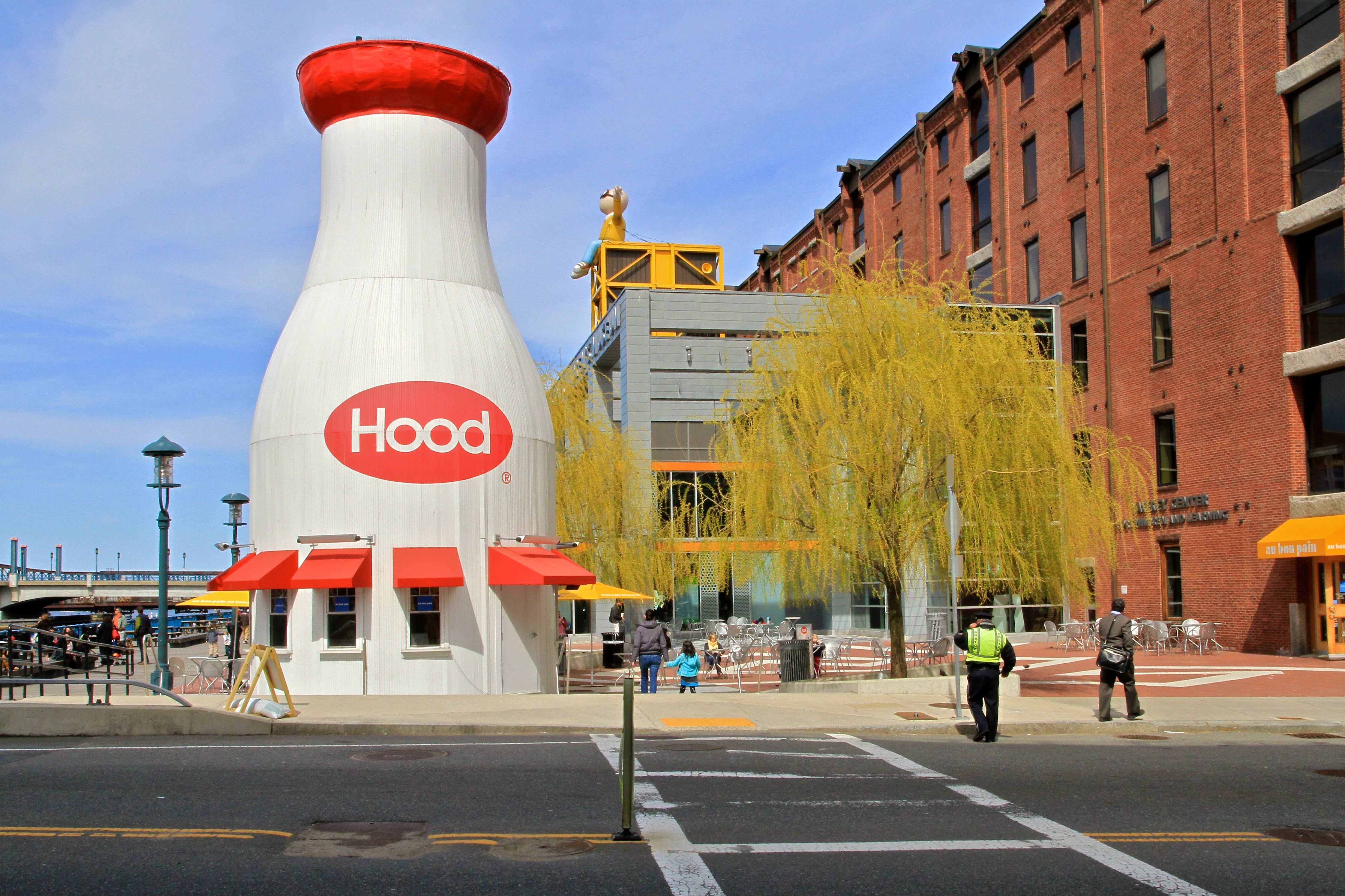 Museum Wharf in Boston, home of the Hood Milk Bottle, The Children's Museum, and formerly the home of The Computer Museum (1984-2000).